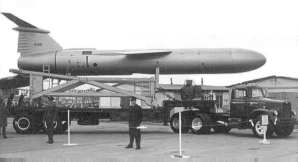 1st Tactical Missile Squadron Martin MGM-1 Matador tactical cruise missile on static display at Bitburg Air Base, West Germany